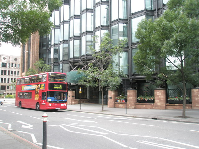 Double decker bus heading north up Friday Street